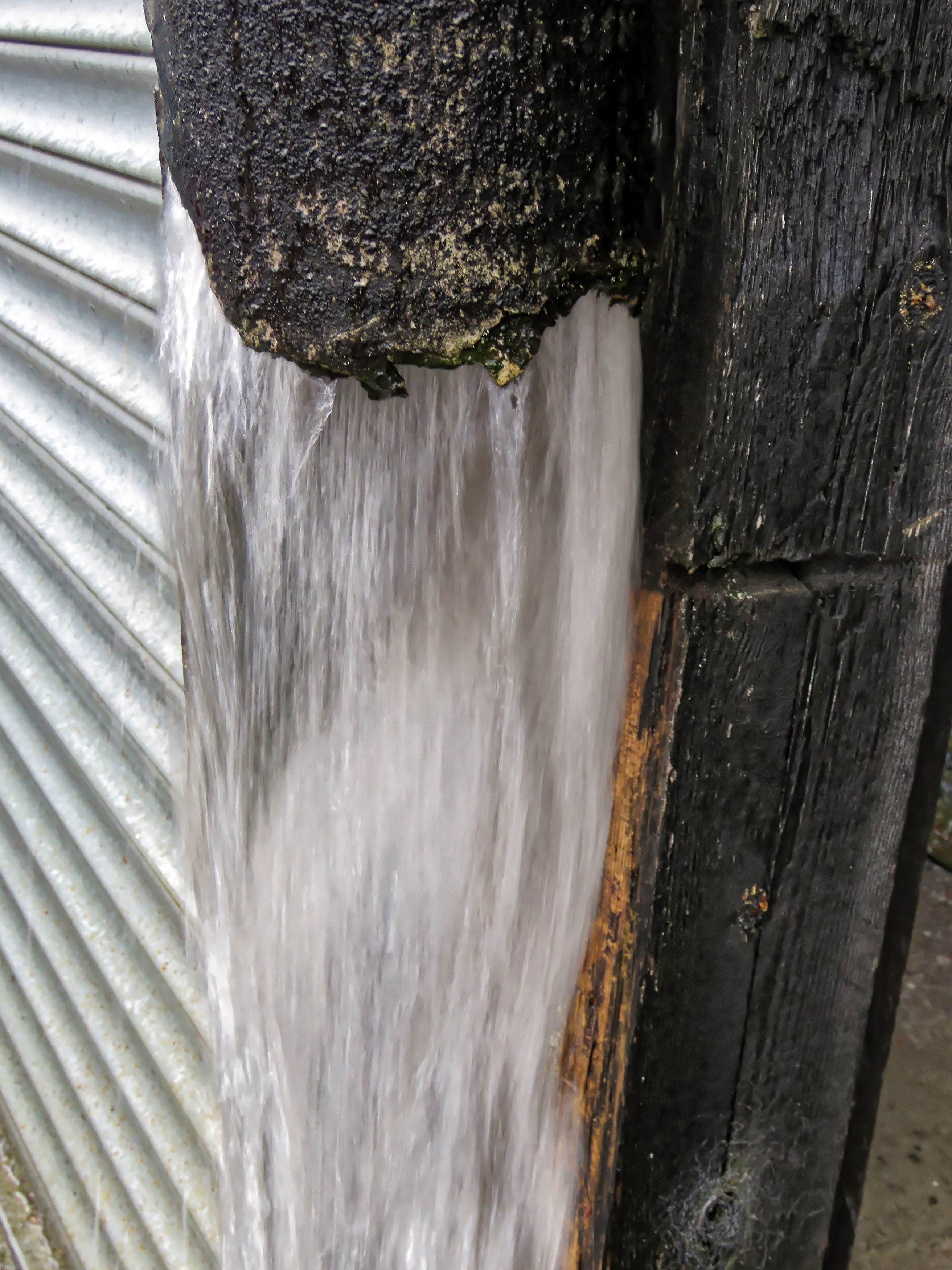 A broken asbestos water pipe draining water during a downpour, and on the outside of a workshop, in the civil parish of Hatfield Broad Oak, and 1.5 miles northeast from Hatfield Broad Oak village, in Essex, England.Camera: Canon PowerShot SX60 HSSoftware: File lens-corrected, optimized, perhaps cropped, with DxO OpticsPro 11 Elite, and further optimized with Adobe Photoshop CS2.